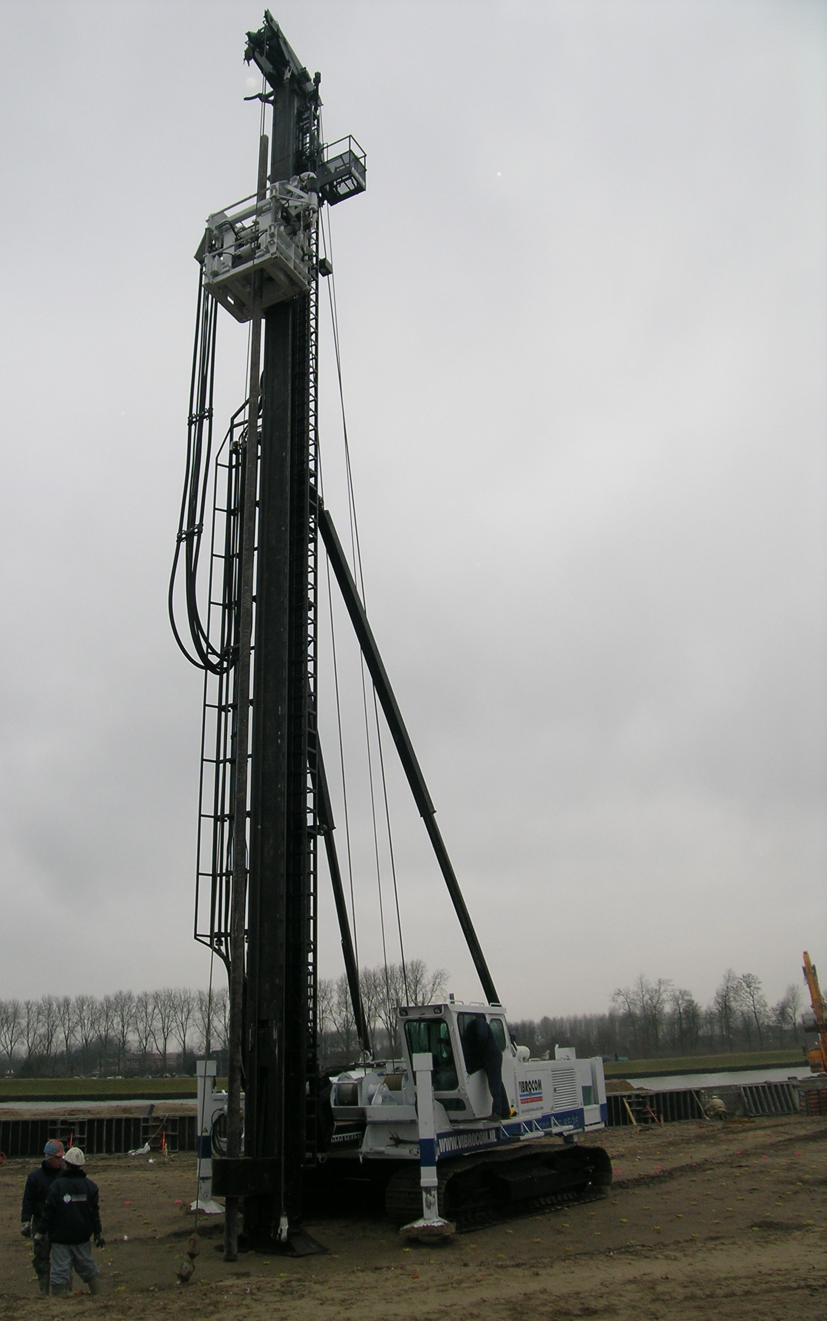 Picture of a MiniVibro piling machine